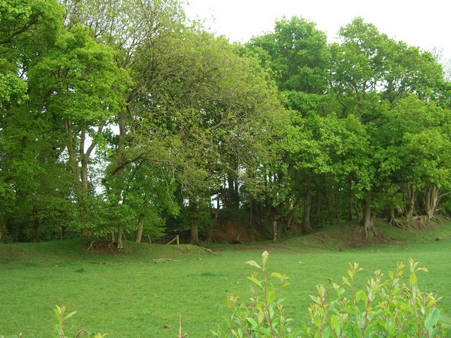 Entrance to Castle Rings Fort The trees hide the impressive twin banks around this extensive hill fort.